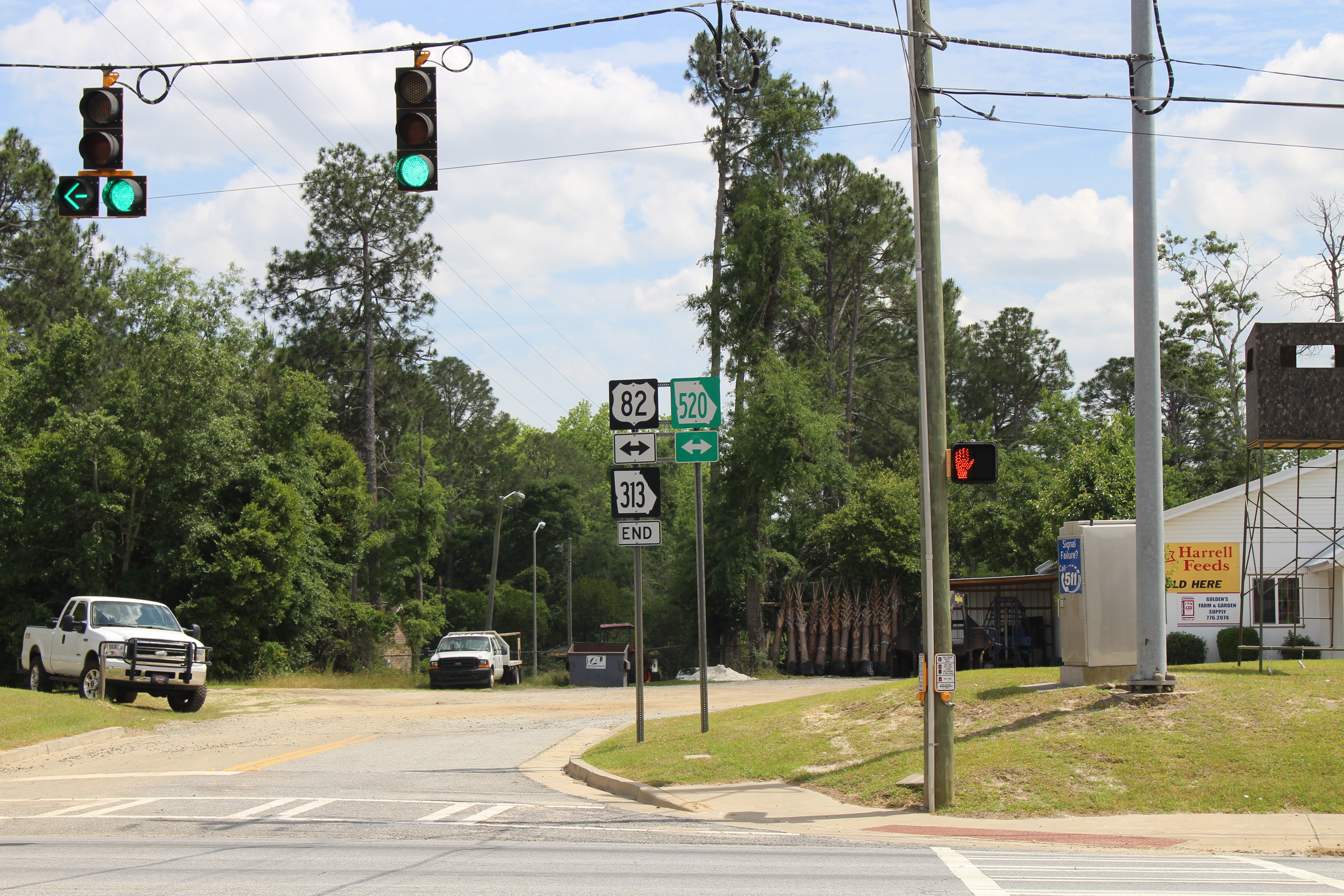 GA313SB End, Sylvester, Worth County, Georgia